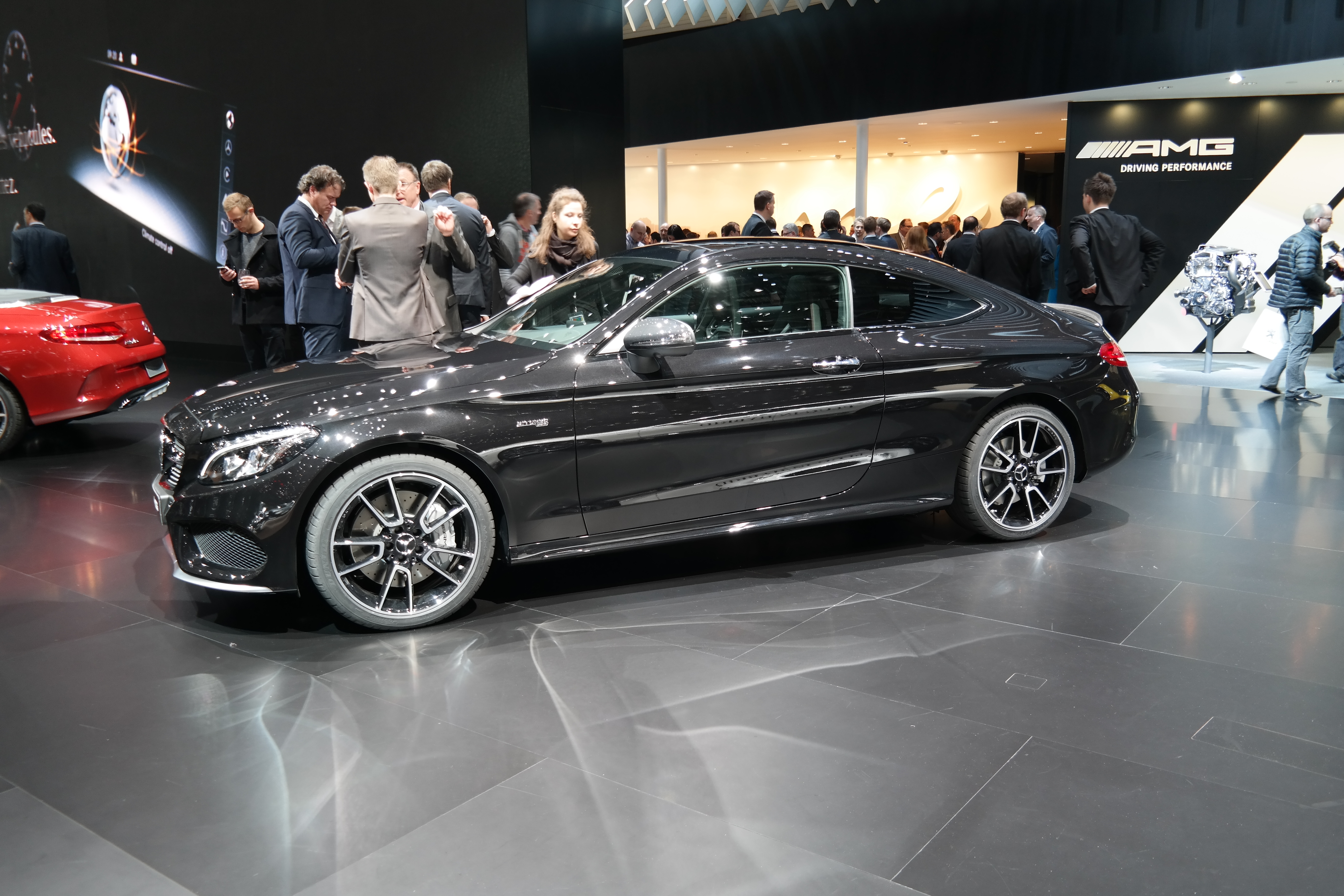 Geneva Motor Show 2016 (photo taken on the first press day)